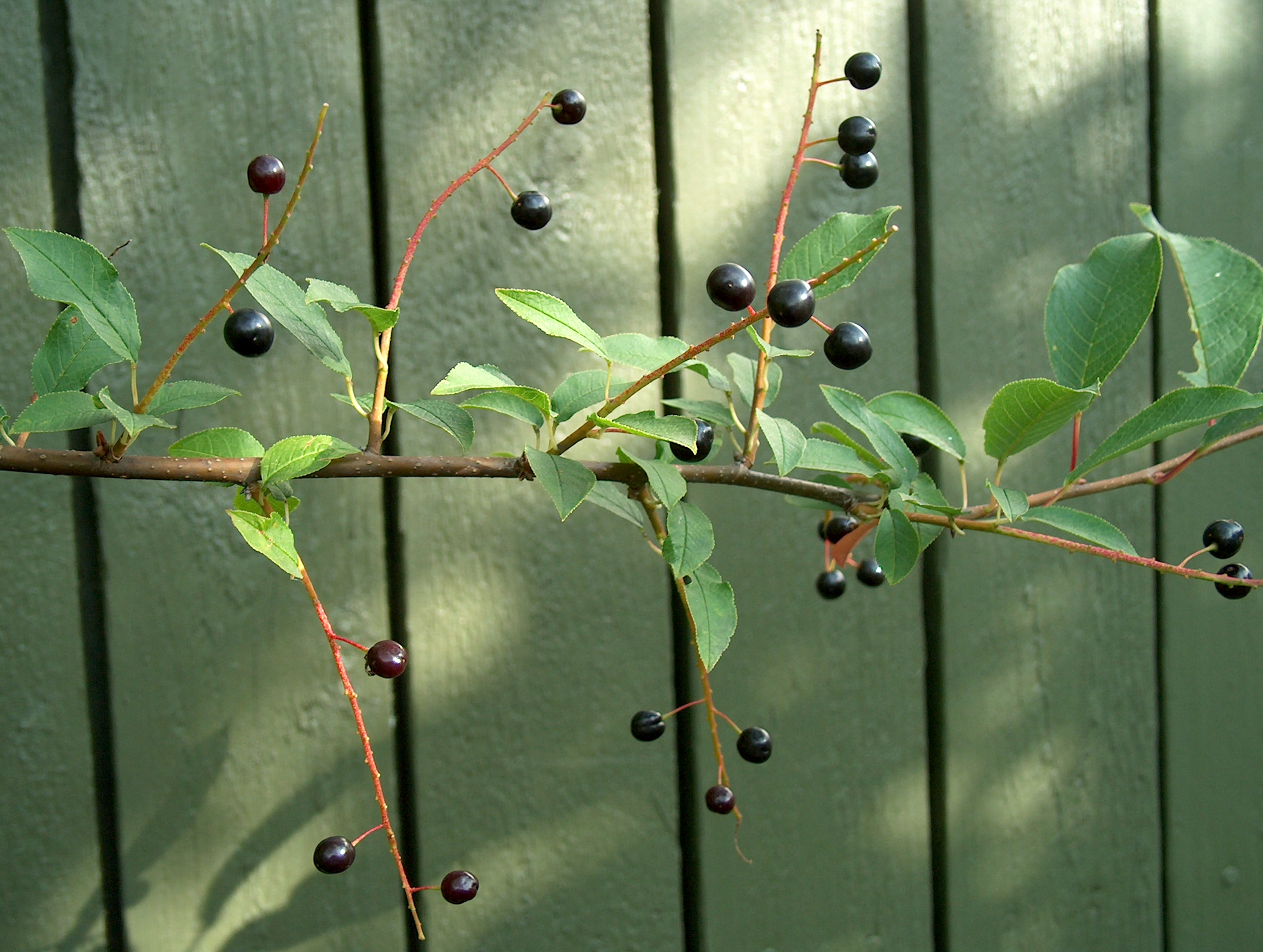 Prunus padus - Bird Cherry berries - Kerava, Finland